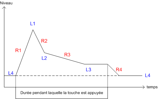 Envelope generator - FM Synthesis